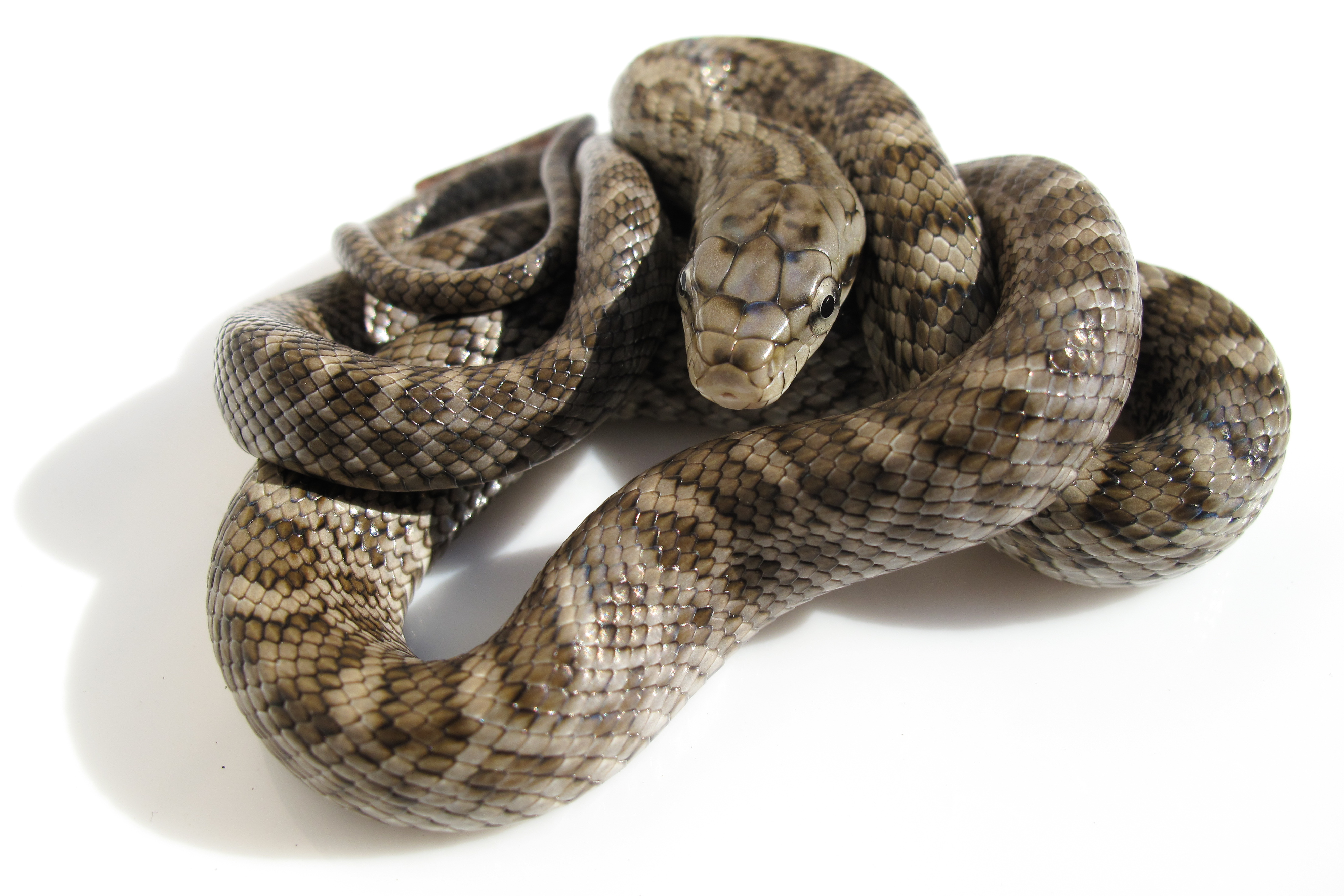 Japanese Rat Snake, juvenile.